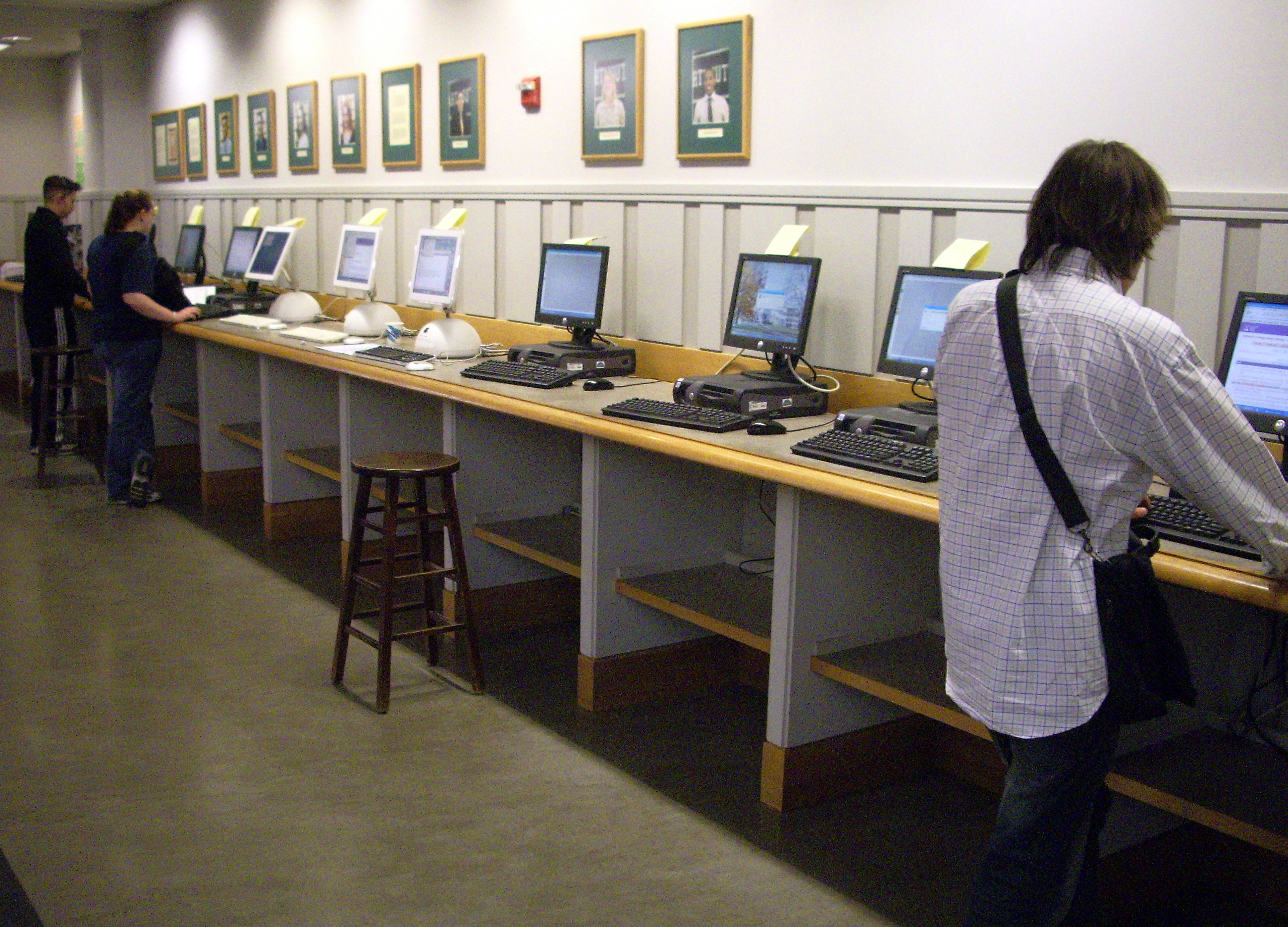 Photograph of BlitzMail terminals in Baker-Berry Library at the campus of Dartmouth College in Hanover, New Hampshire.